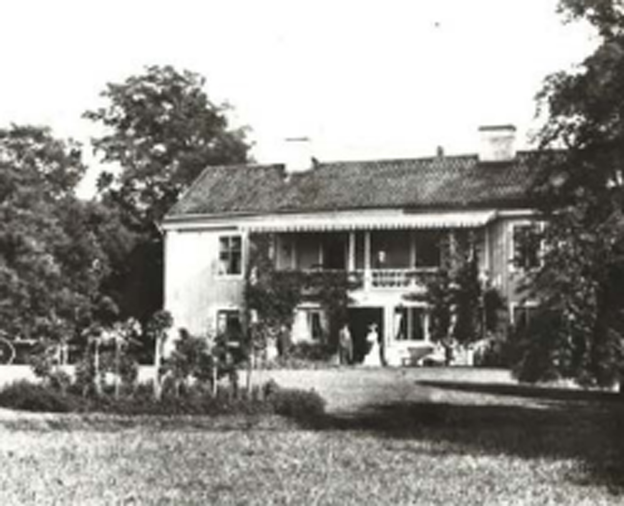 A corps de logi at the mansion Kvibergs landeri, gothenburg, Sweden